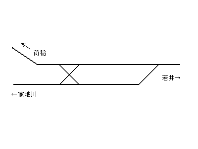 Track diagram of Kawaoku Signal Base